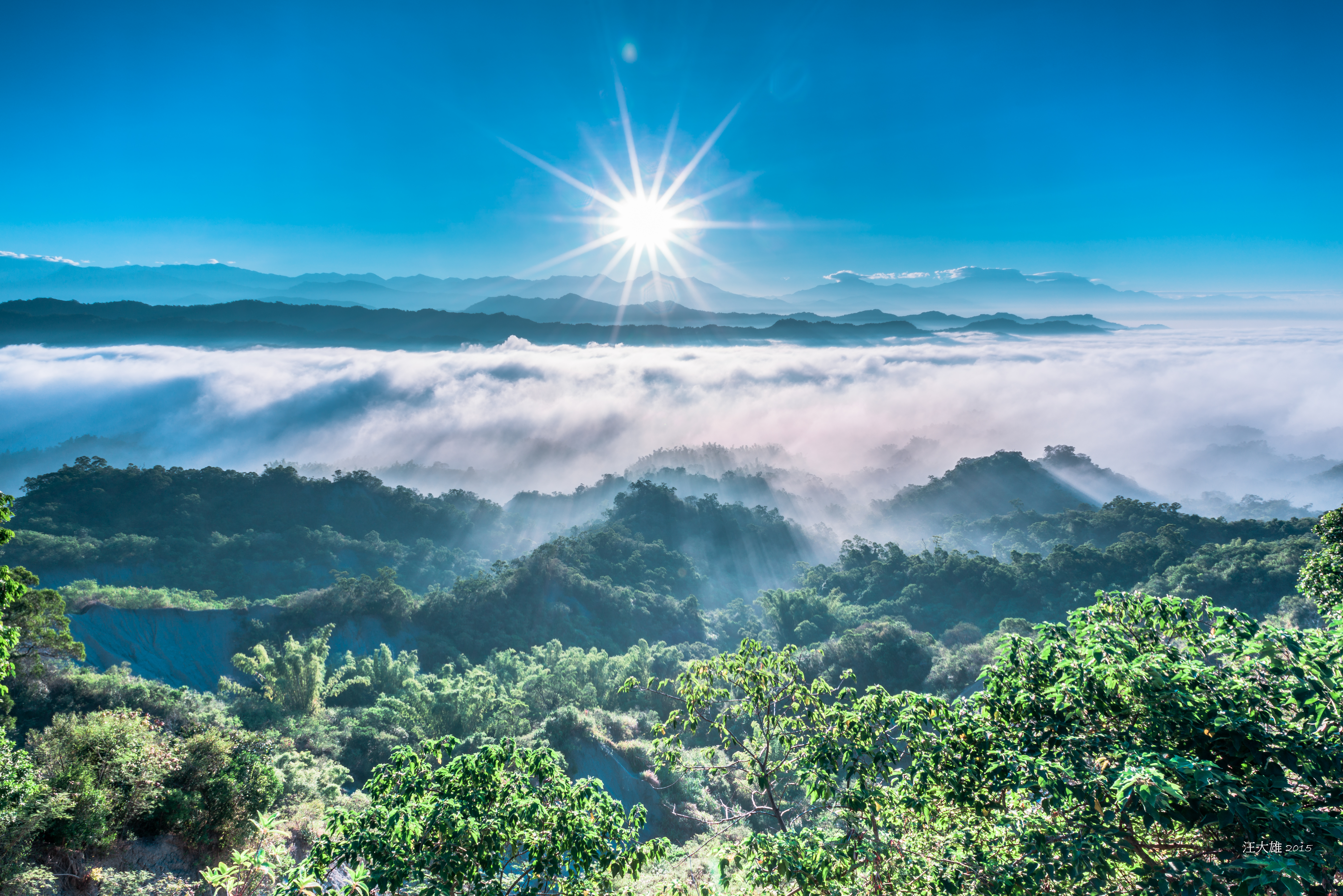 View from Hill 308.